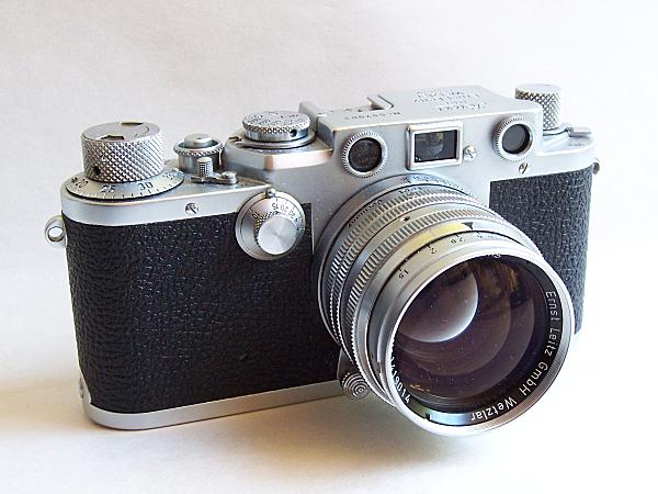 The Leica IIIf 35mm rangefinder camera of 1950, shown with 50mm f1.5 Summarit lens. This was the last Leica Thread Mount (LTM) camera before the M-bayonet M3 of 1954. The IIIf was also the second-to-last Leica LTM, the last being the short-lived (1957–1960) IIIg.